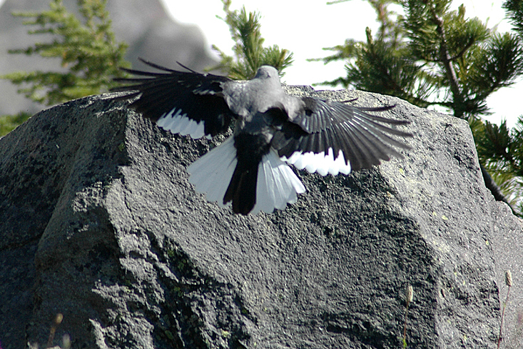 Clark's Nutcracker with wings spread out, about to land on a rock near McNeil Point, Mount Hood, Oregon Cascades.